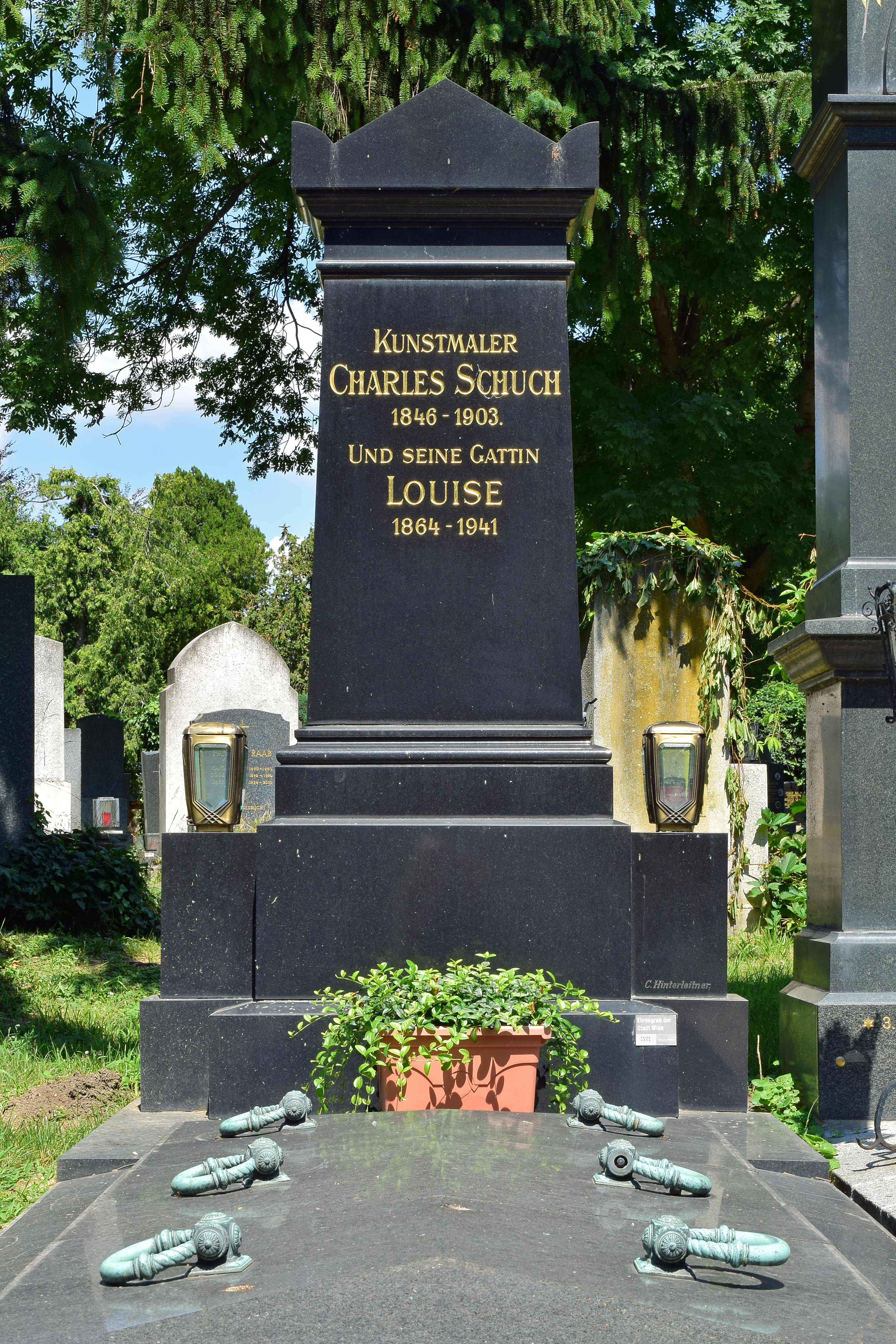 Grave of honor of Carl Schuch at the Wiener Zentralfriedhof